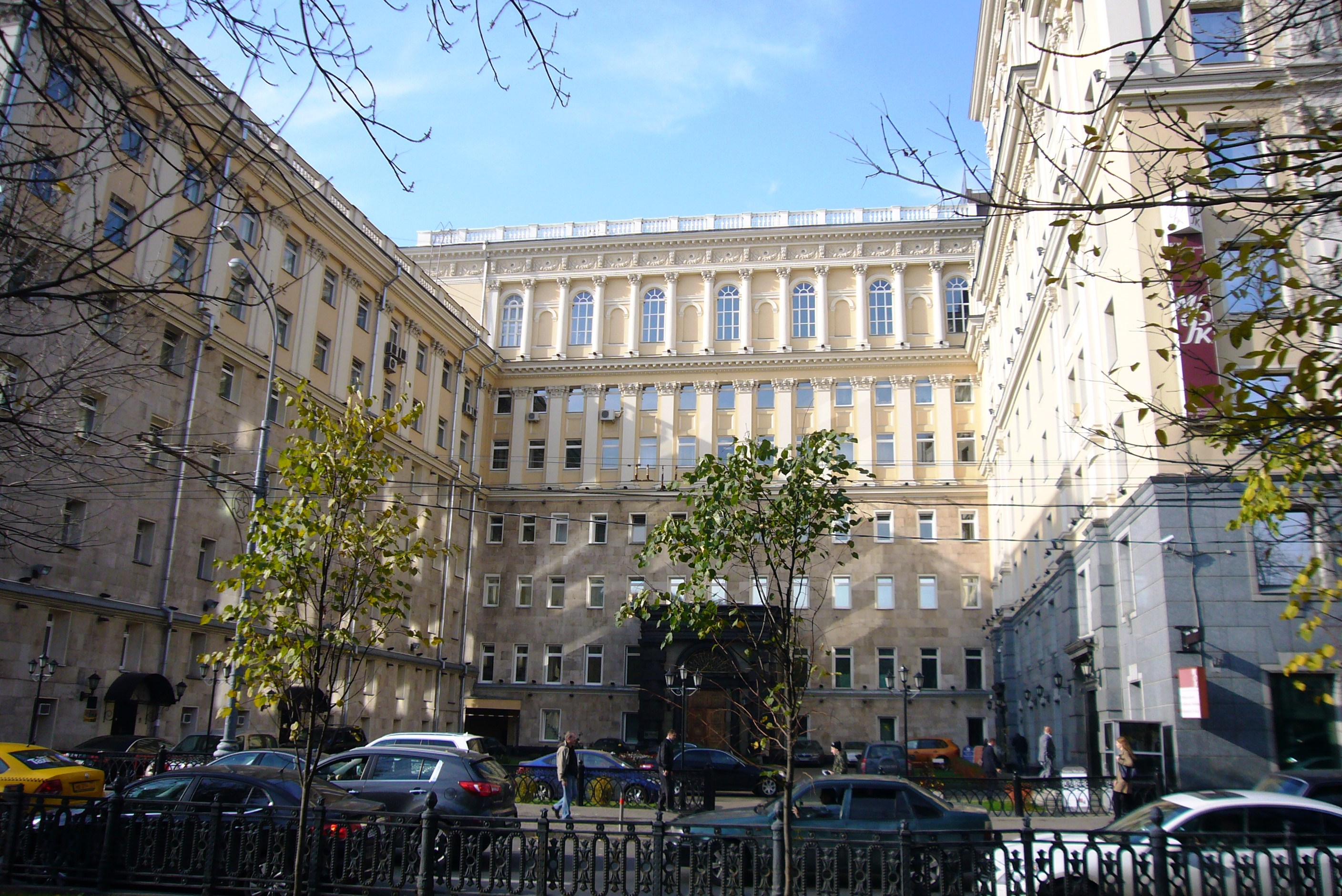 Building at Tverskoy Boulevard 13 in October 2014.